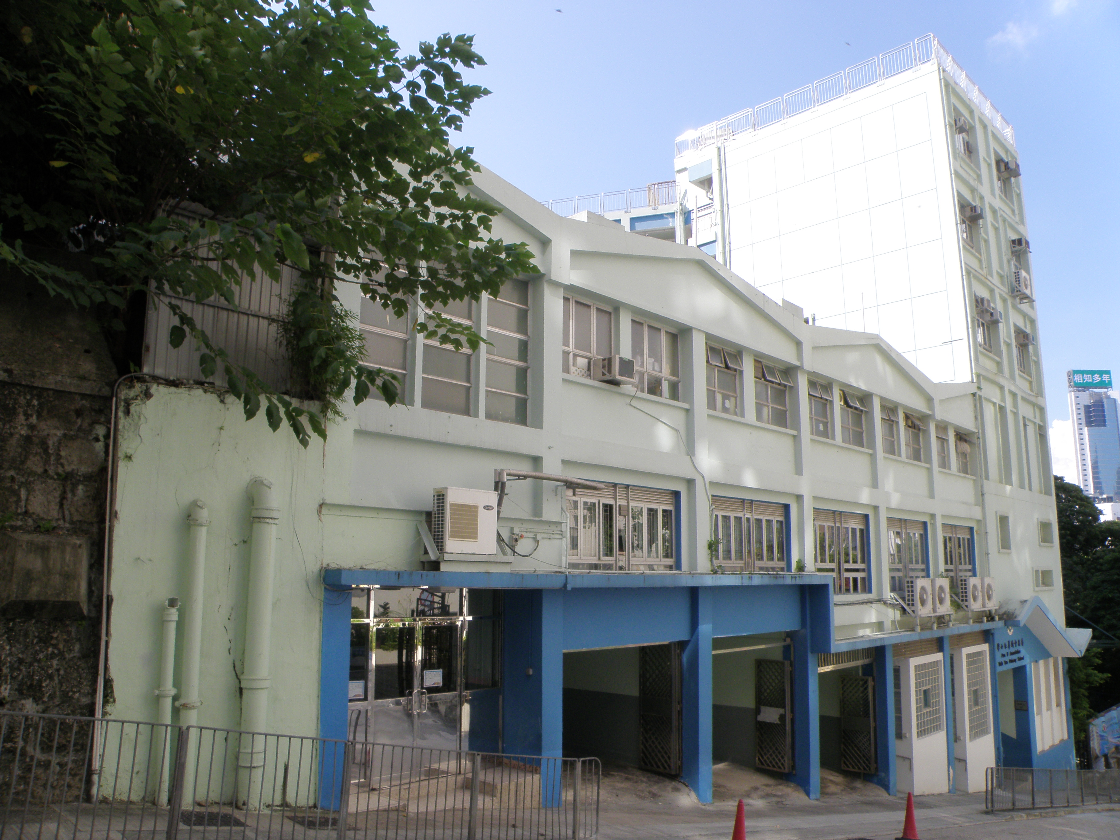 Pun U Association Wah Yan Primary School in Wan Chai, Hong Kong.